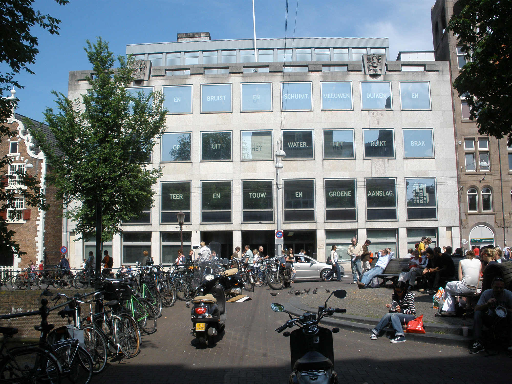 The main building of the University of Amsterdam library on the Singel canal in the centre of Amsterdam. In the front of the picture is Koningsplein square. On the left, part of the Stads-Bushuis (the former city arsenal) can be seen.